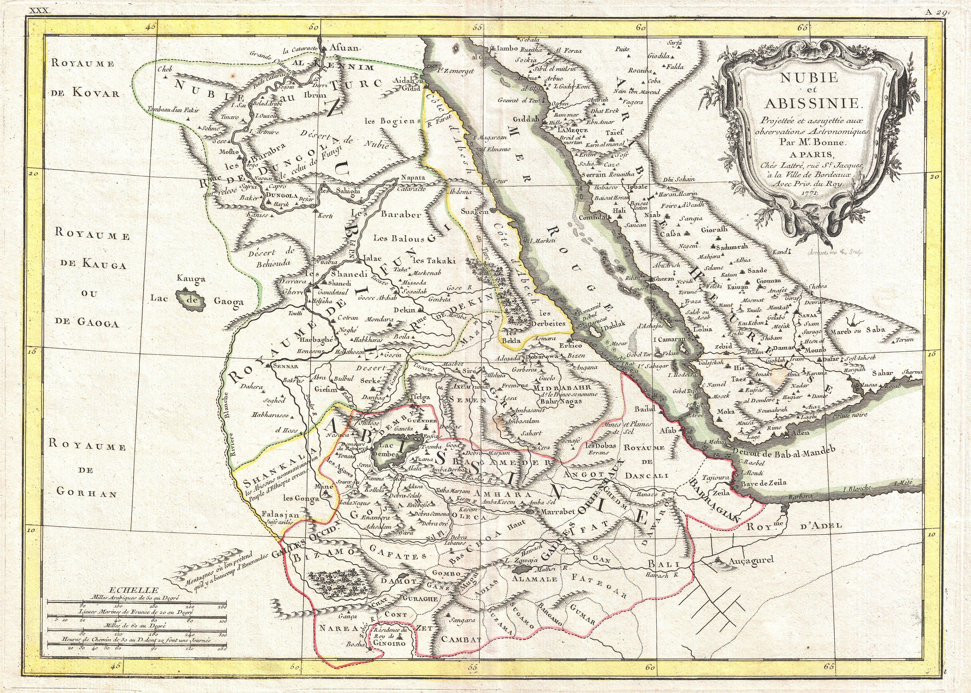 A beautiful example of Rigobert Bonne's 1771 map of Nubia and Abyssinia. Covers from Aswan, Egypt south along the Nile river to include all of modern day Sudan, Ethiopia, Eretria, Djibouti and Somalia. Also includes parts of neighboring Arabia across the Red Sea. This is a fairly advanced map revealing the cartographic sophistication of the Abyssinian Empire. Shows the Blue Nile flowing correctly into Lake Dambea (Lake Tana) from the south. Notes numerous important cataracts on the Blue Nile. The White Nile, who's course is more mysterious, acts as a kind of western border for this map, with only vague notations regarding the African empires lying on its western shores. Names numerous Nubian and Ethiopian cities and monasteries as well as the location of Mecca across the Red Sea. A fine map of the region. Drawn by R. Bonne in 1771 for issue as plate no. A 20 in Jean Lattre's 1776 issue of the Atlas Moderne .